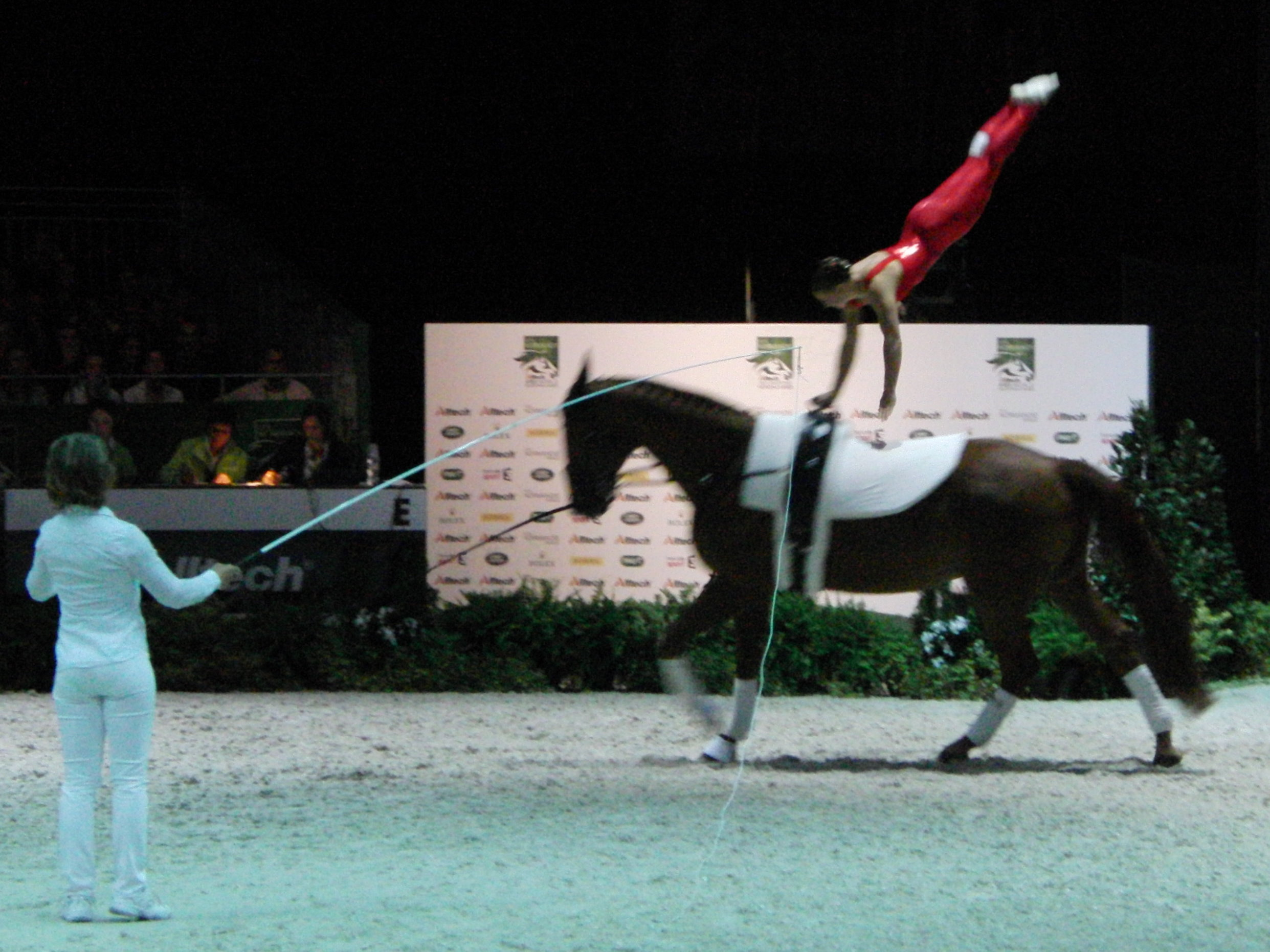 2014 FEI World Equestrian Games - Vaulting ind. Women Round 1 - Simone Jäiser for Switzerland